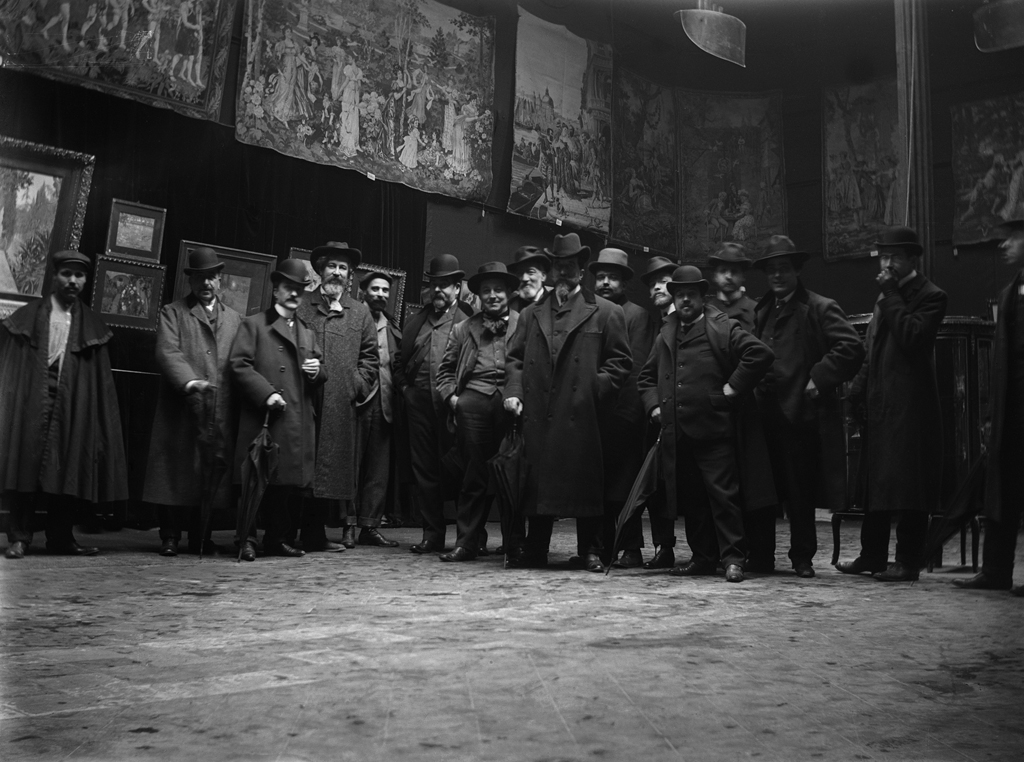 Còpia moderna del negatiu original de vidre 20 x 25 cm Llegat Dolors Moros, 2010 Museu d'Art Jaume Morera 2576